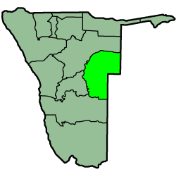 Credit: Sascha Noyes, 2004 Info: Map of the Omaheke Region in Namibia; Created with the GIMP 07:13, 30 January 2004 Snoyes 250x254 (15498 bytes)